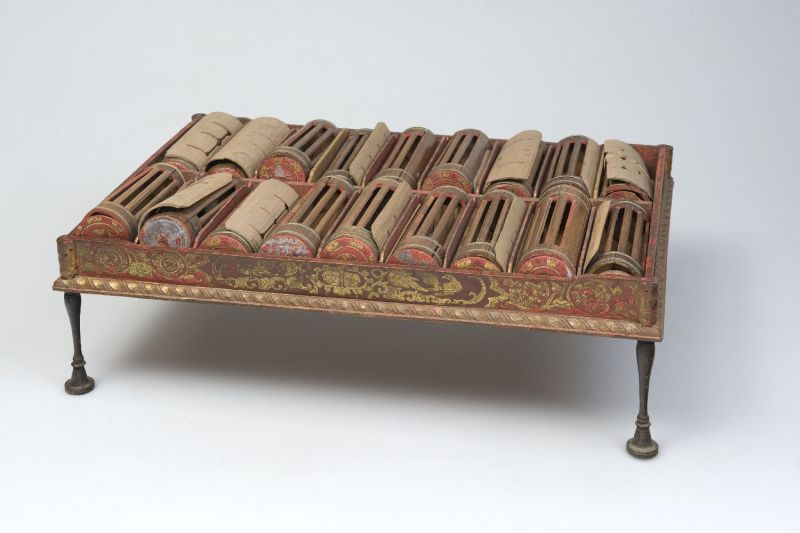 Wooden box on legs with eightteen bamboo containers for fighter crickets